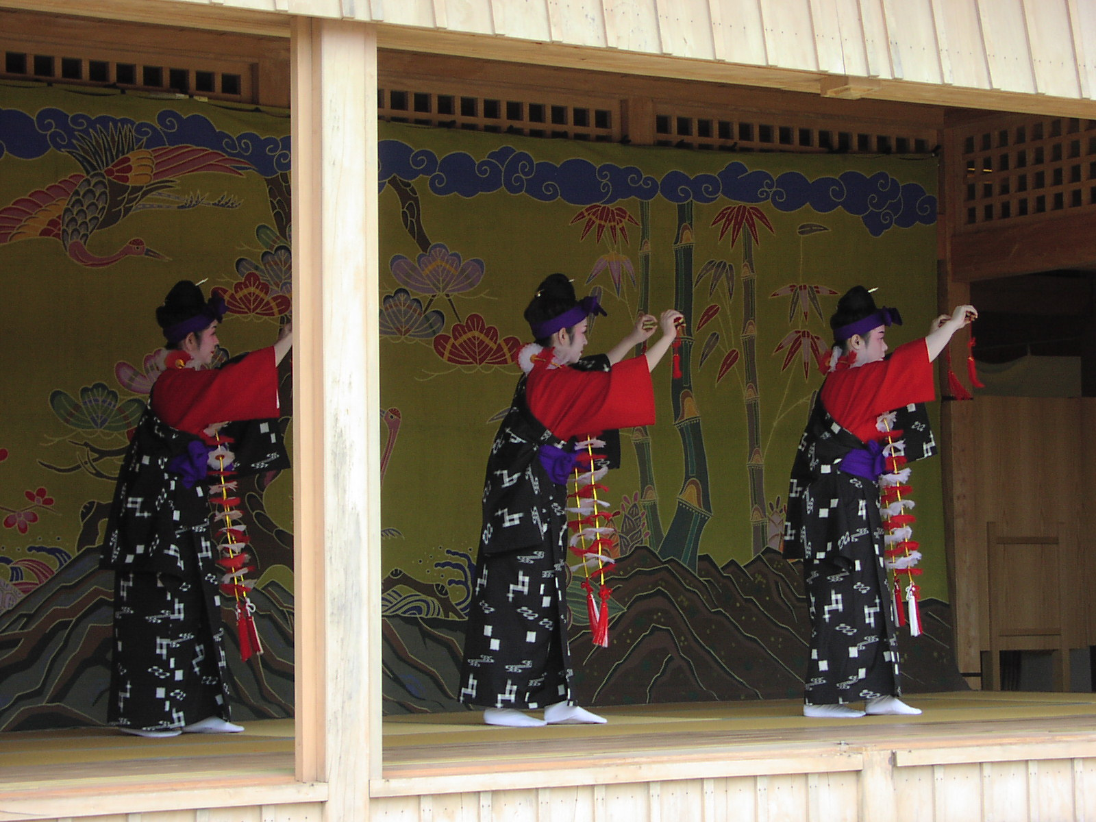 okinawa costume